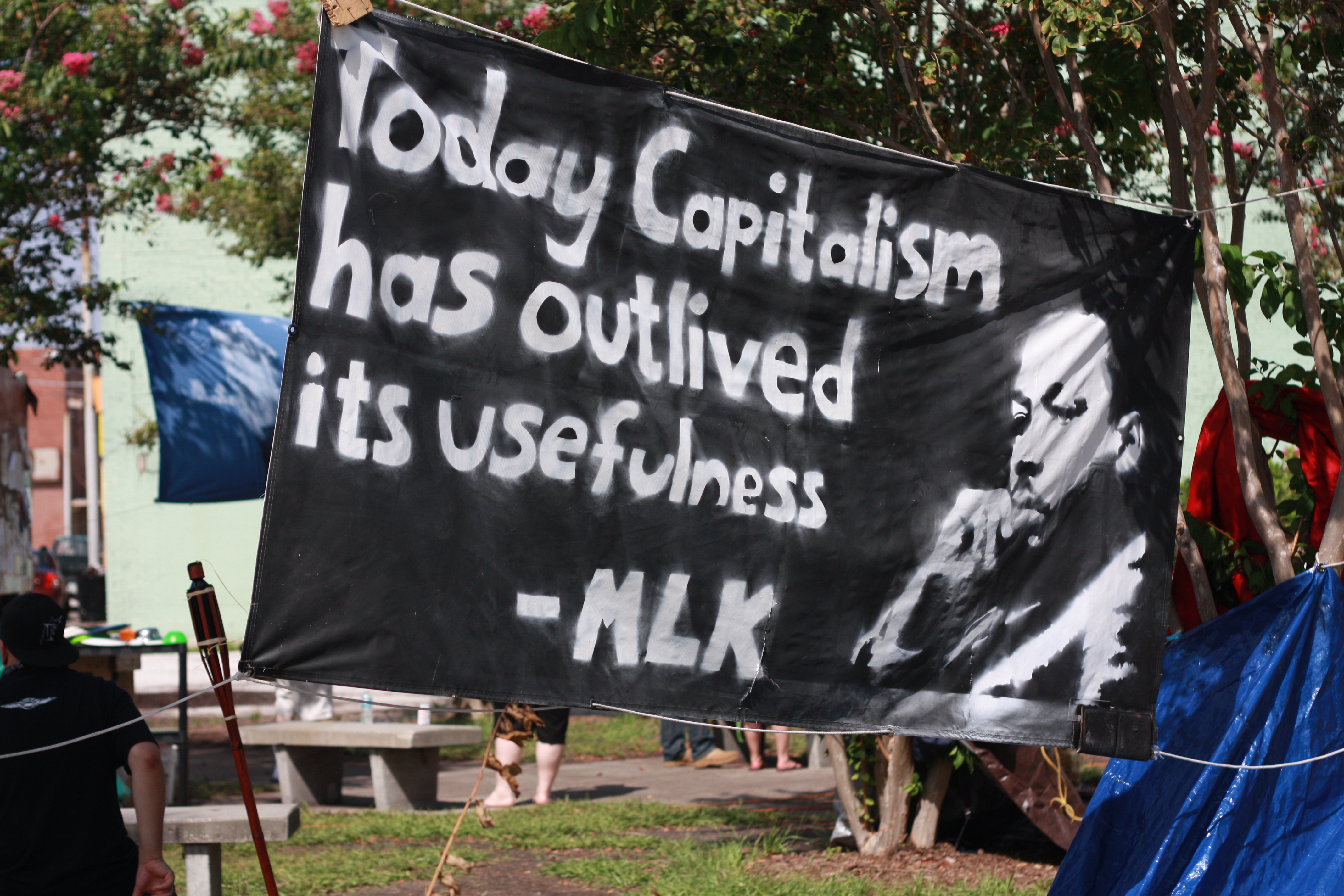 Banner at the 2012 Republican National Convention depicts Martin Luther King, Jr., and the quotation: "Today Capitalism has outlived its usefulness."